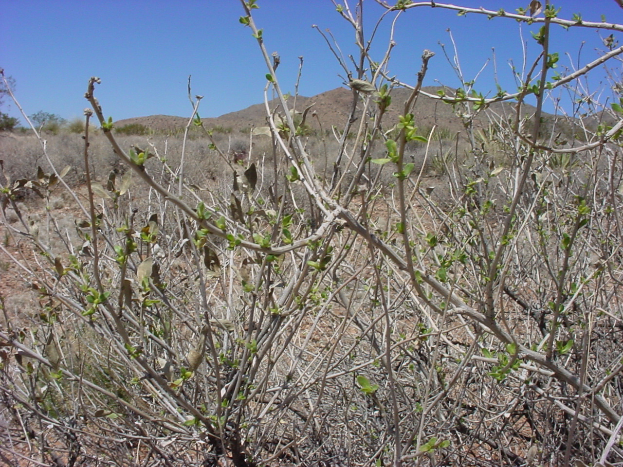 Flourensia cernua in Burro Mountains, Engineer Canyon, Gila National Forest.